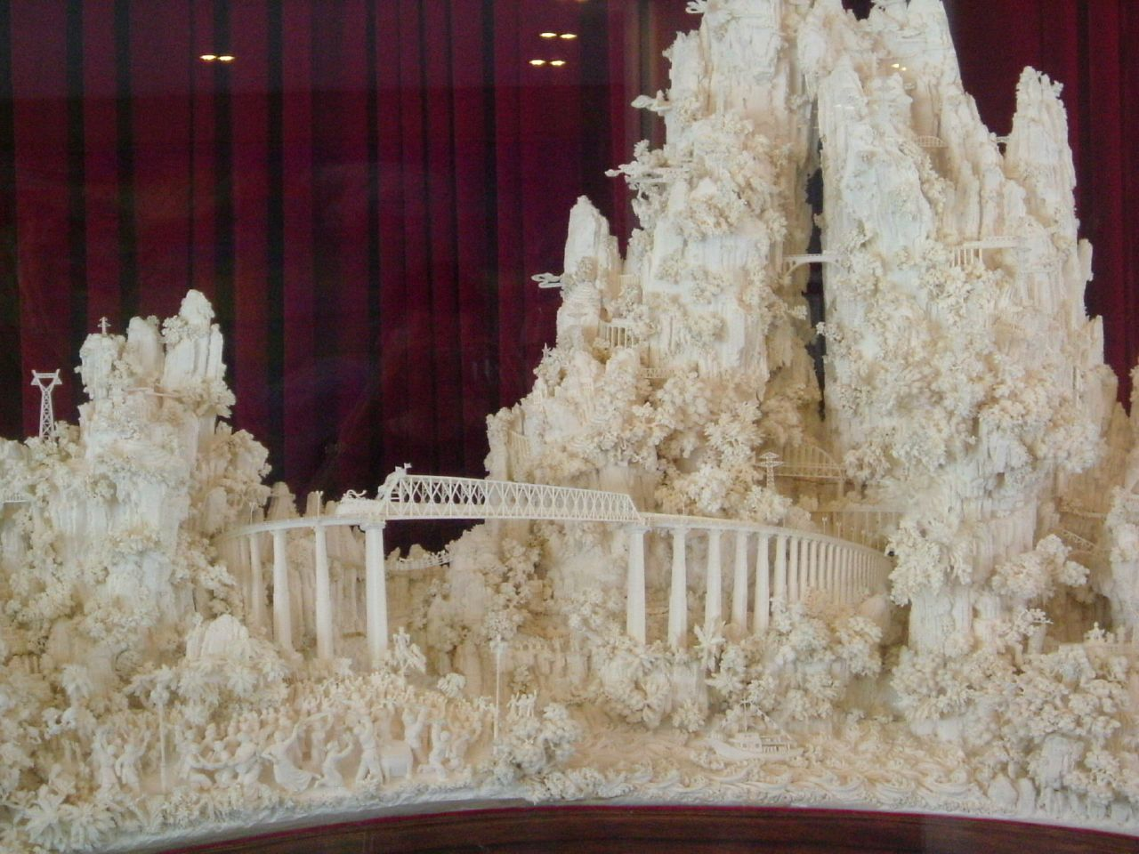 This ivory carving is a gift from China presented to the United Nations in 1974. It depicts the Chengtu-Kunming railway, which was opened to traffic in 1970 and covers a distance of over 1,000 kilometers. The railway connects two Chinese provinces, Yunnan Province in the South and Szechuan Province in the North. The sculpture was carved from eight elephant tusks, and it is said that 98 people worked on it for more than two years. It is amazing for its detail - it is possible to see even tiny people carved inside the train.